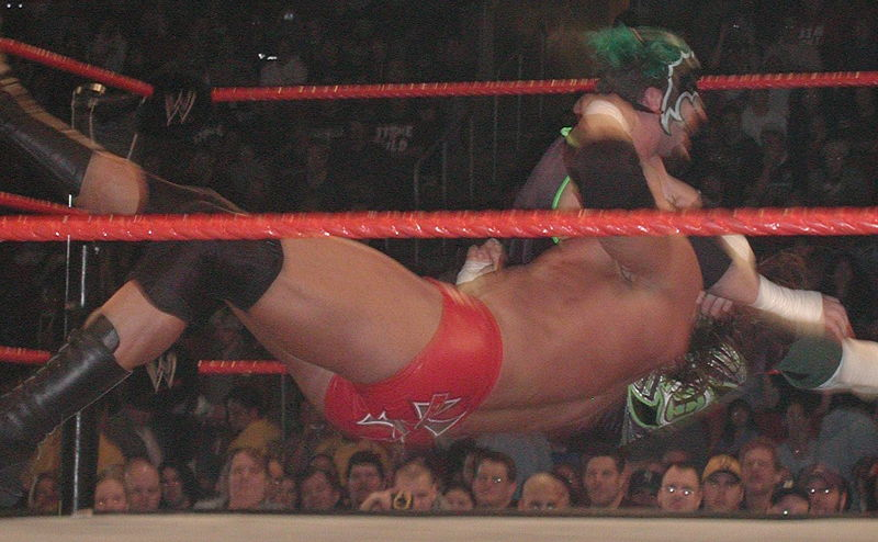 The Eye of the Hurricane, performed by The Hurricane on Triple H. Key Arena, Seattle, WA, March 31en:2003.